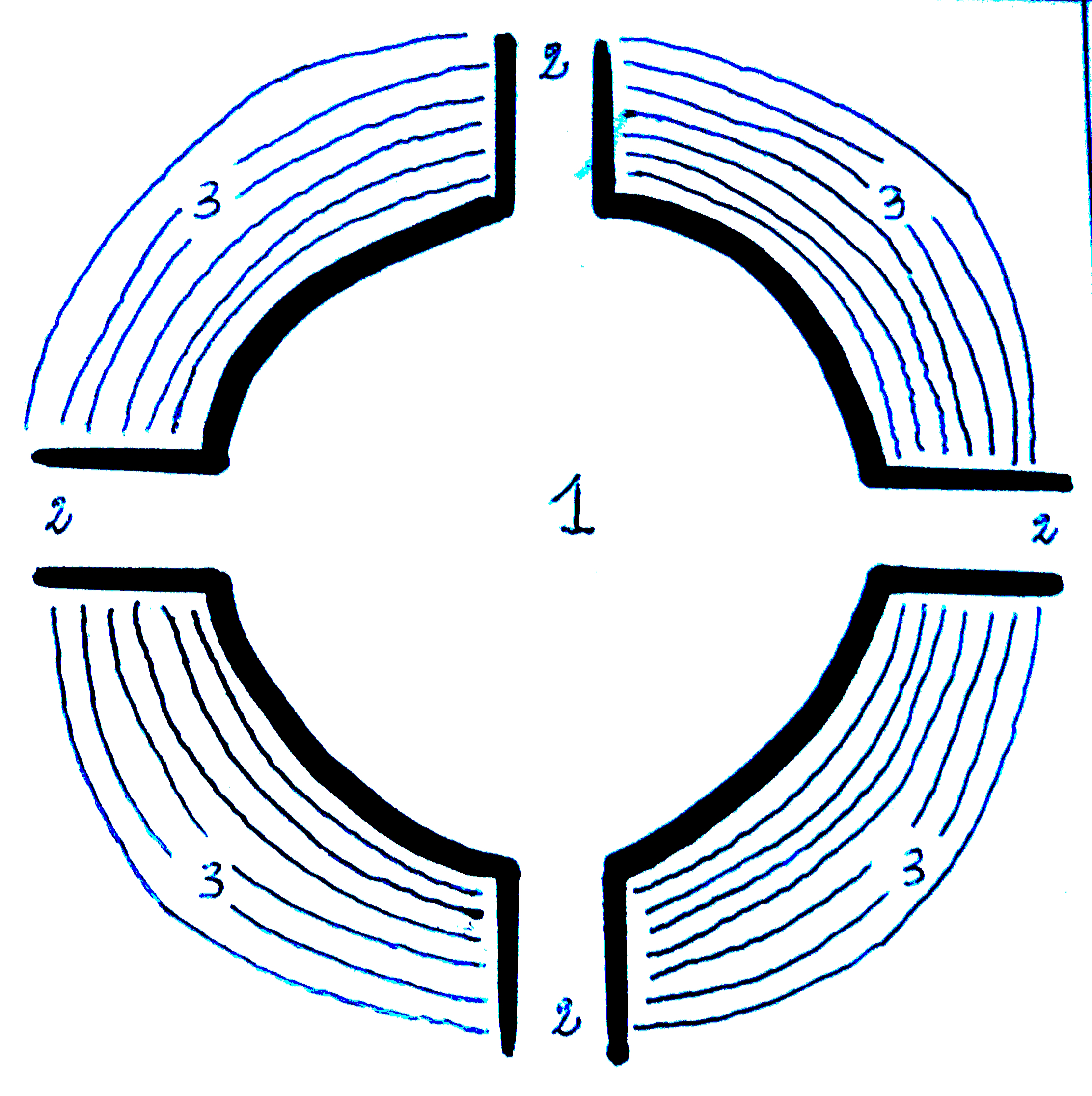 Fundamental diagram of the scenic space of theatrical performance, said halga in algerian term. Point 1 is the acting space, point 2 entries actors, point 3 places where the spectators sit. This scenic theatrical mode was introduced in Algeria for the first time in 1968 by Kadour Naimi. .